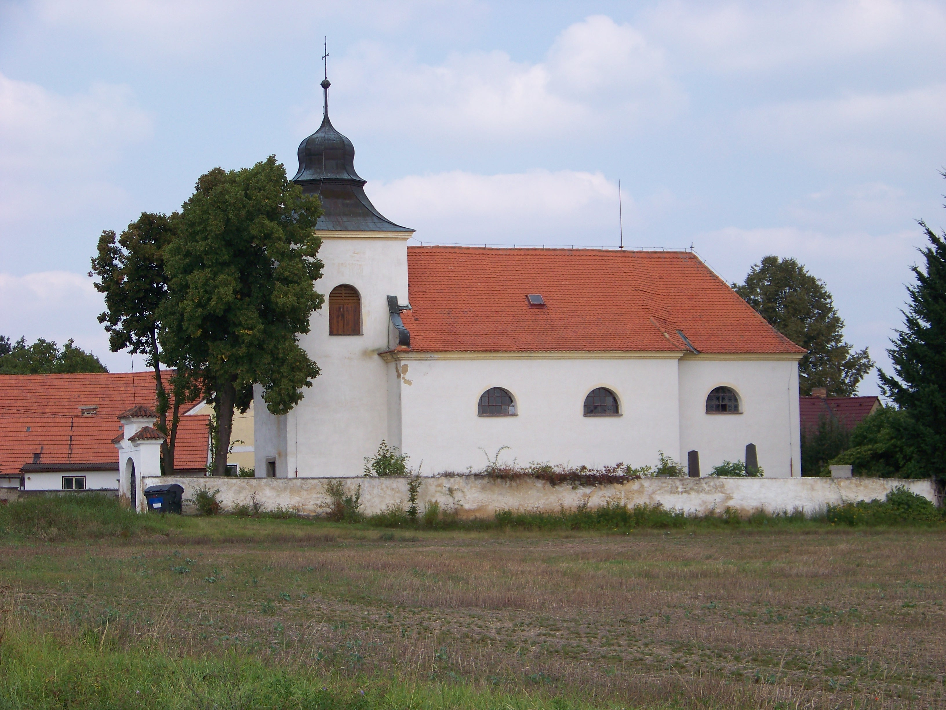 Šípy-Milíčov, Rakovník District, Central Bohemian Region, the Czech Republic. Church of Saint Peter ad Vincula.